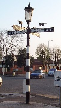 The Fingerpost. A well-known landmark at the top end of Pelsall, at the junction of the A4124 and B4154.